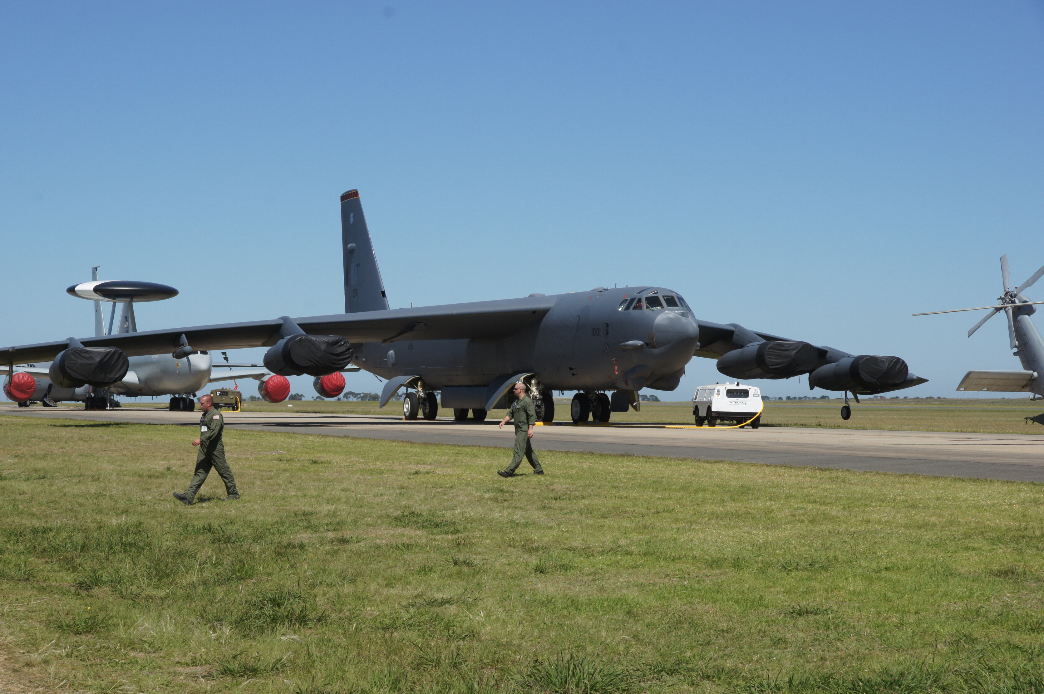 B-52 in Australian airshow 2011